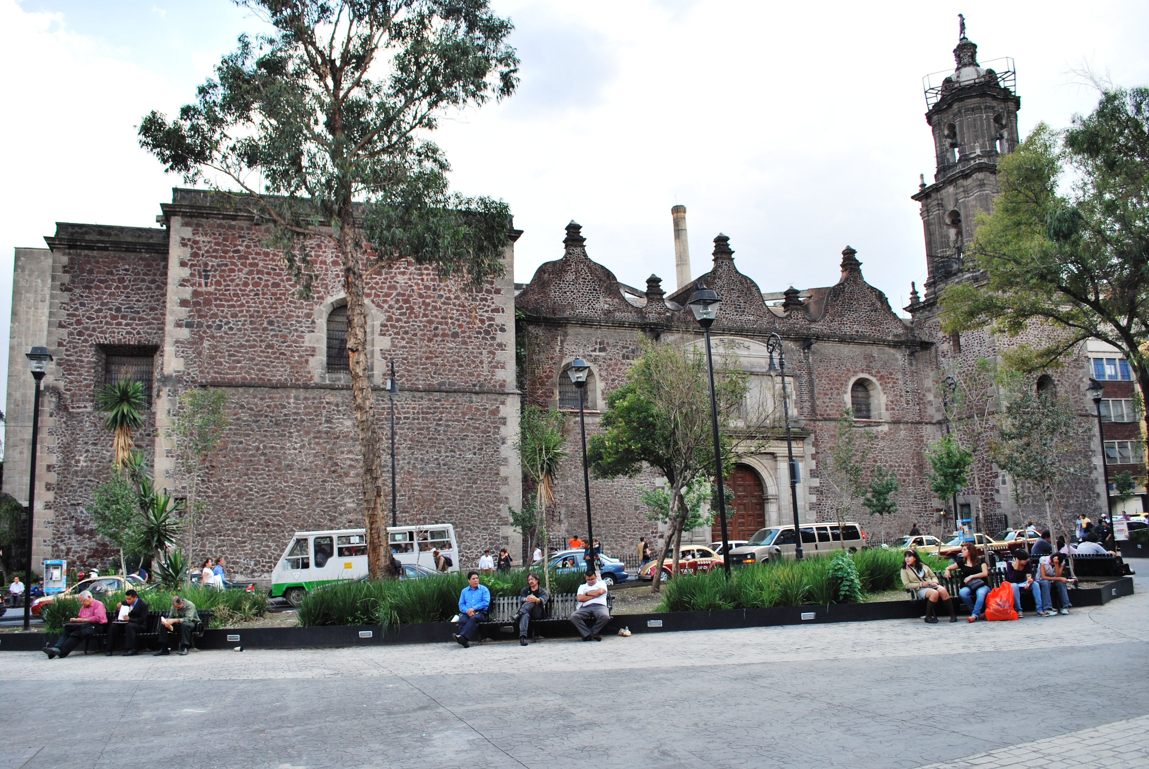 Jesús Nazareno Church on the corner of Pino Suarez and Republica de El Salvador in the historic center of Mexico City. Final resting place of Hernán Cortés.